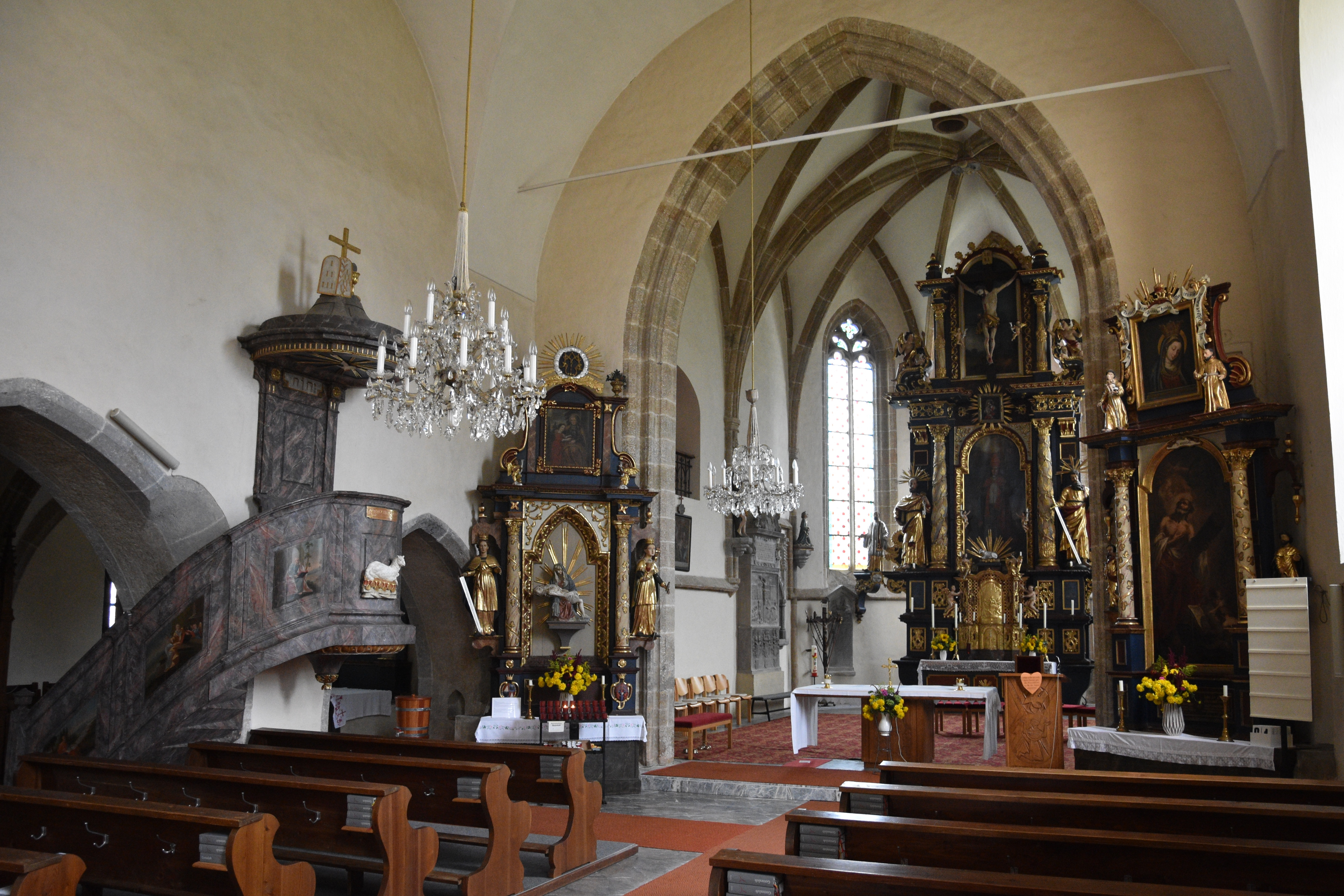 Church Pfarrkirche St. Lambert, Großlobming Interior